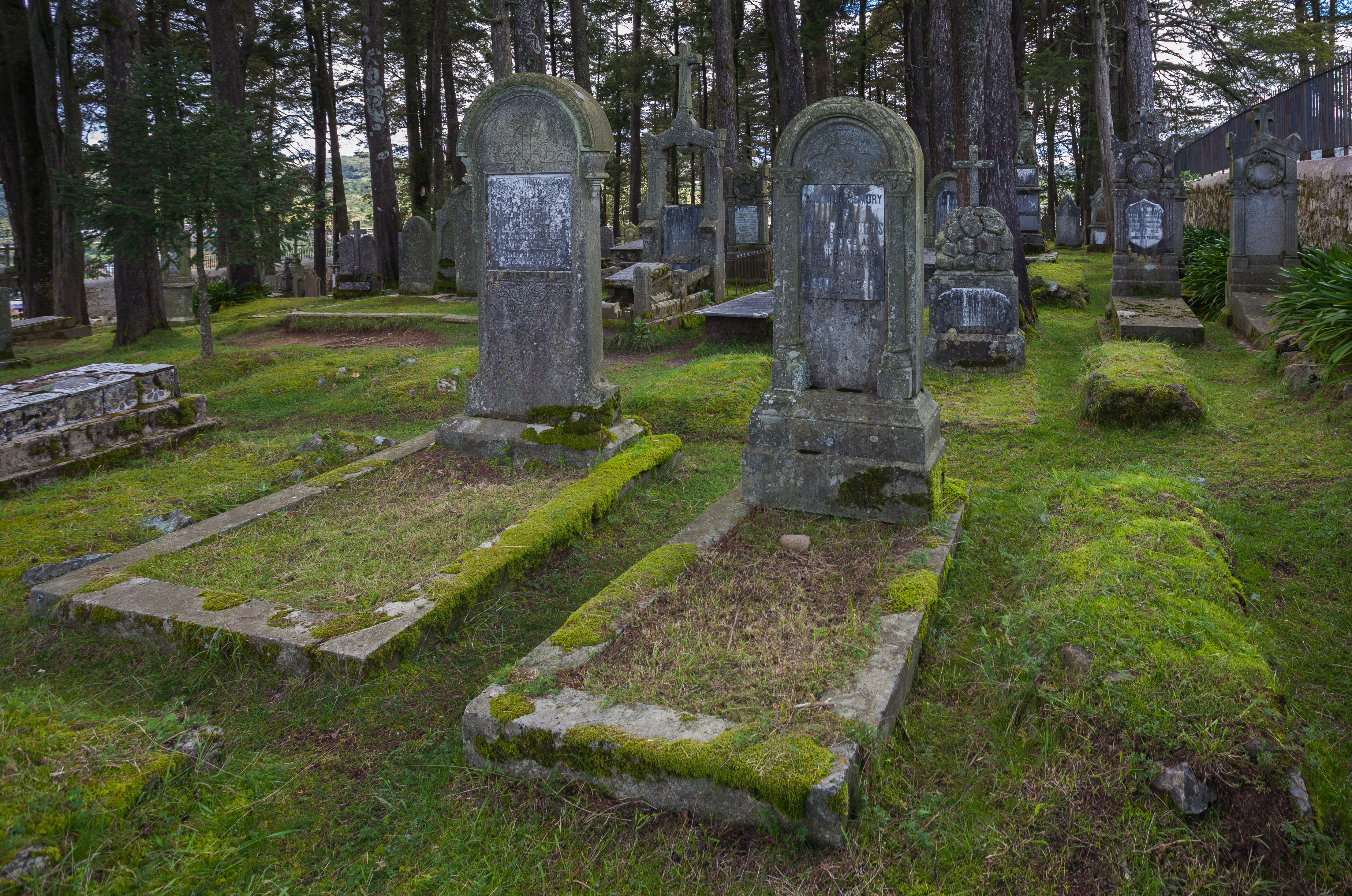 English Pantheon, Real del Monte, Hidalgo, Mexico